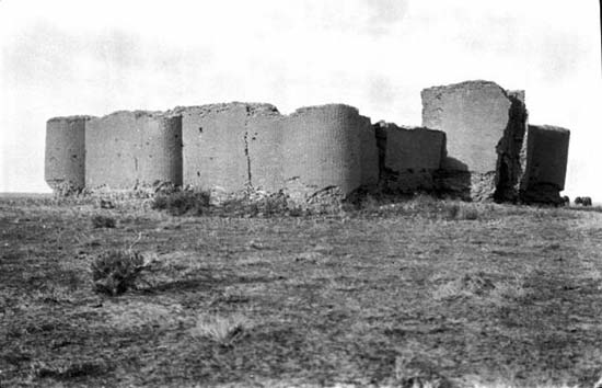 Khan atshan in Karbala, 1918